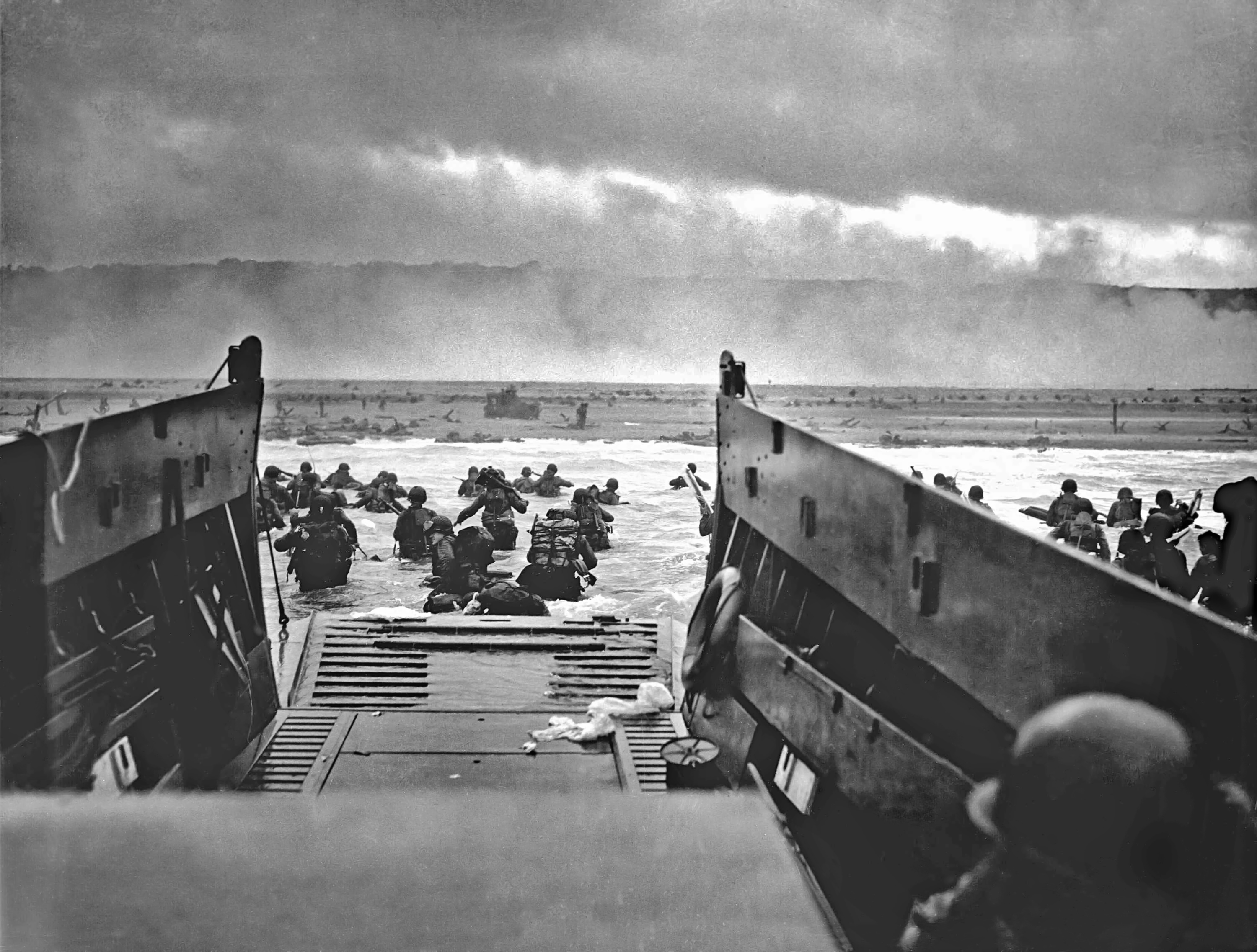 A LCVP (Landing Craft, Vehicle, Personnel) from the U.S. Coast Guard-manned USS Samuel Chase disembarks troops of the U.S. Army's First Division on the morning of June 6, 1944 (D-Day) at Omaha Beach, France.